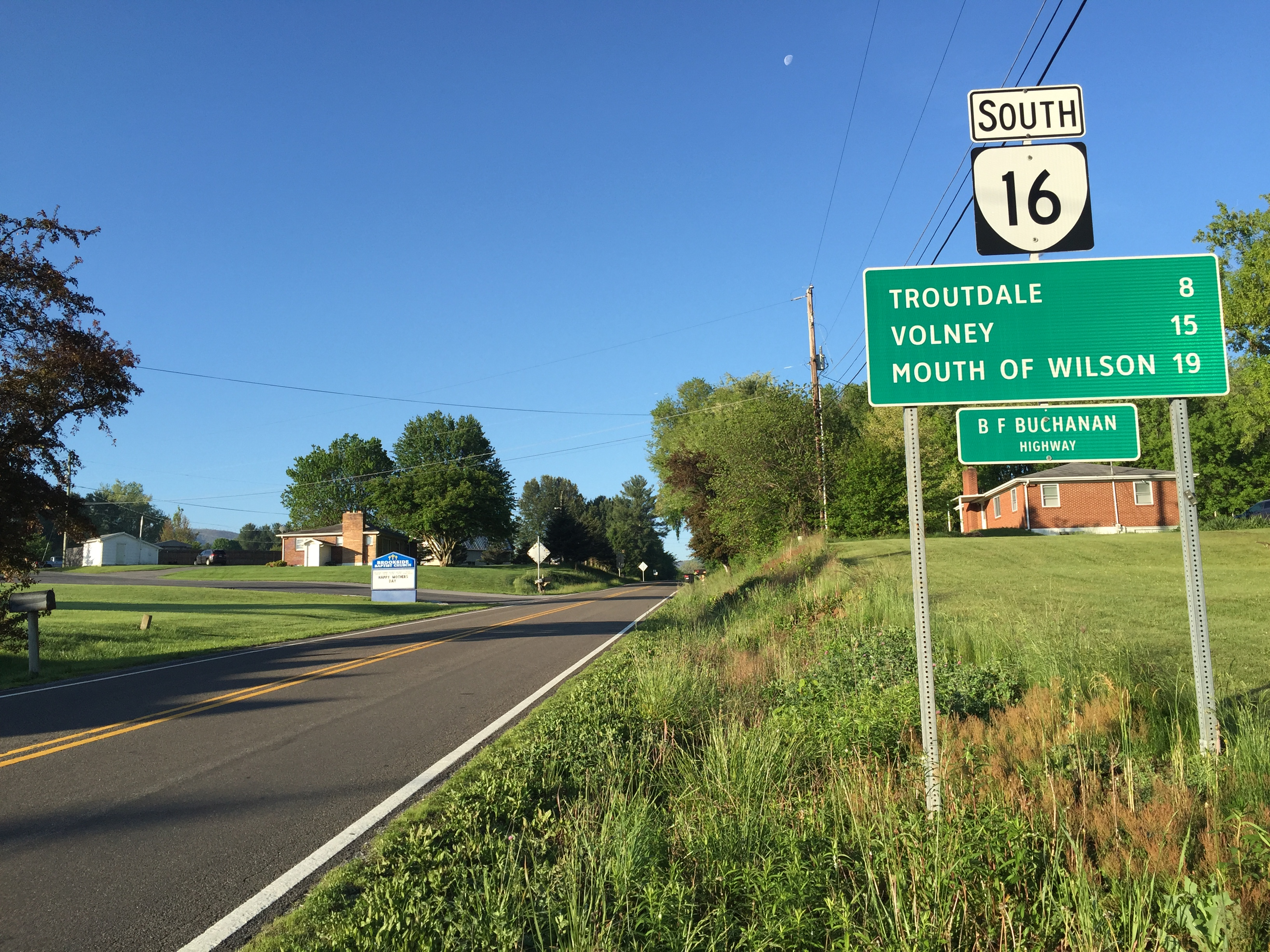 View south along Virginia State Route 16 (B F Buchanan Highway/Sugar Grove Highway) between Bonham Drive and Megan Lane in Sugar Grove, Smyth County, Virginia